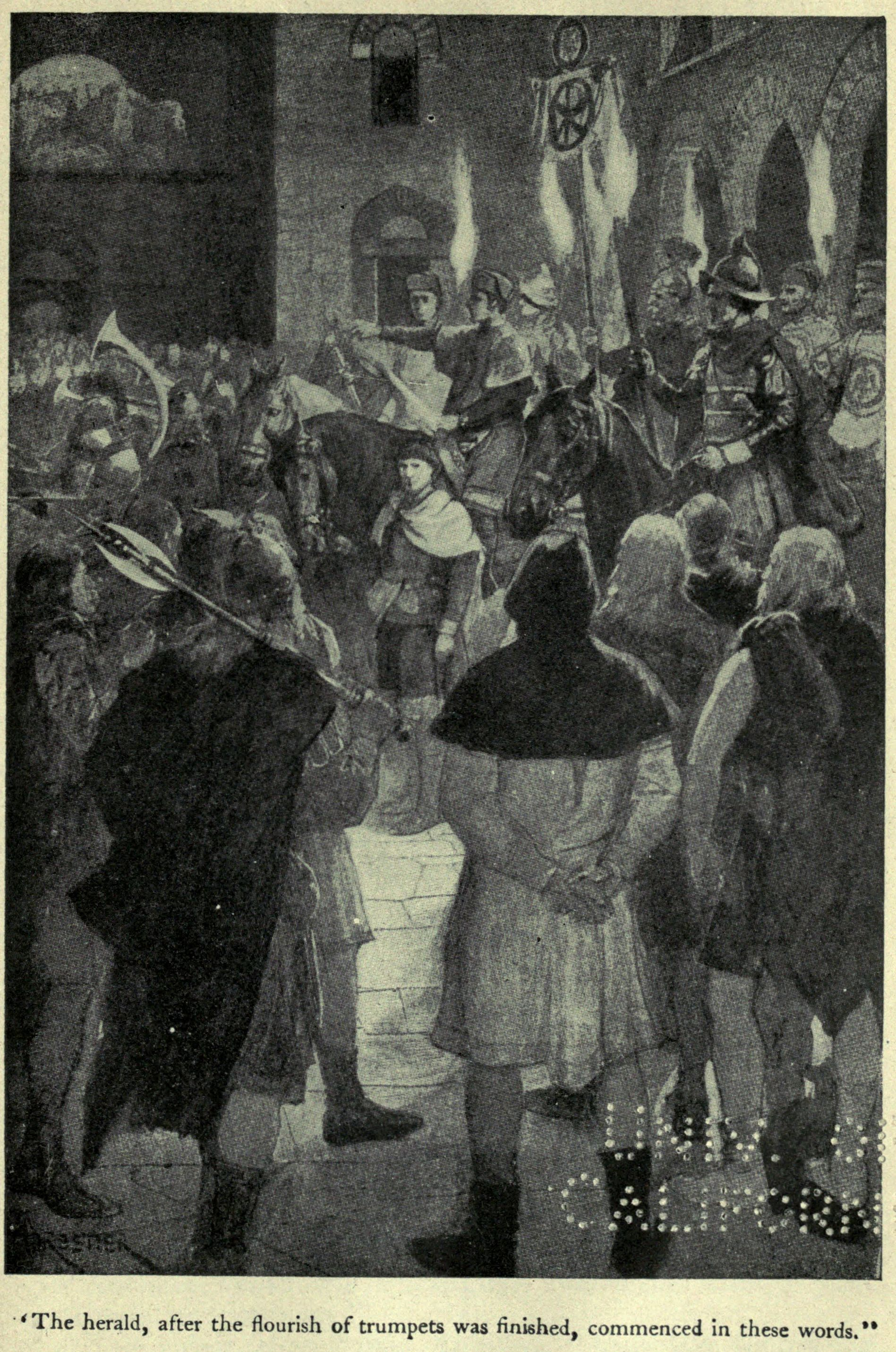 Illustration from "Anne of Geierstein, or, The maiden of the mist ; Count Robert of Paris", Boston, Dana Estes & Company